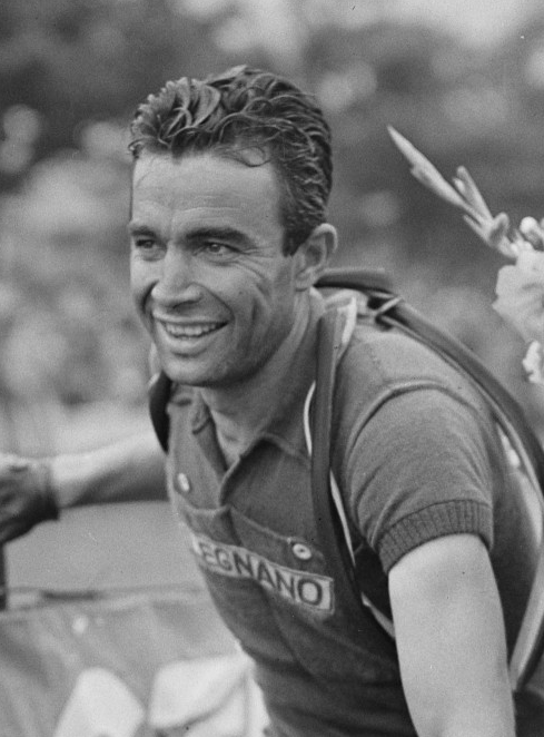 Adolfo Leoni.